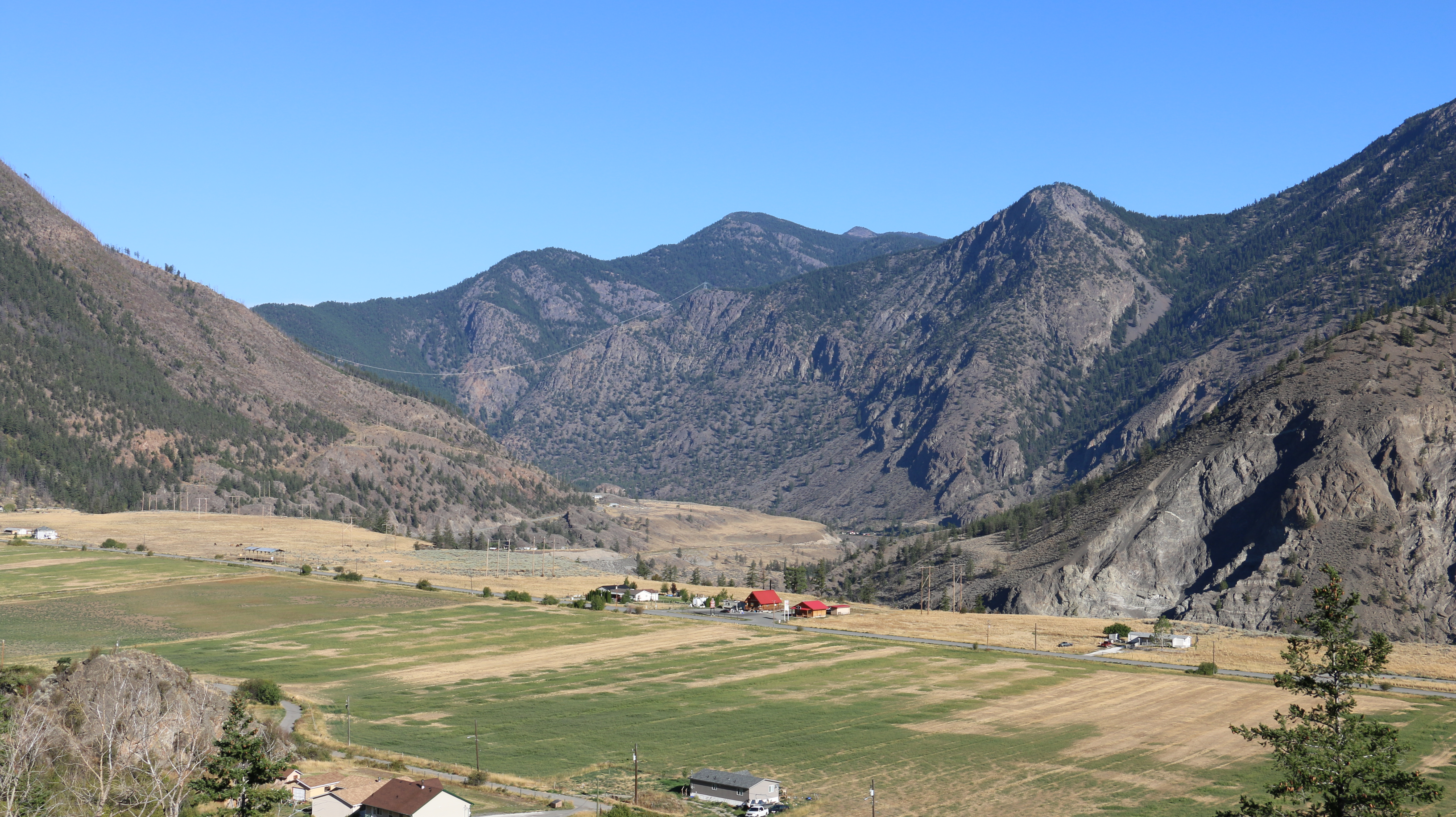 Fountain, British Columbia, and Highway 99, near the Fountain Valley Road junction.